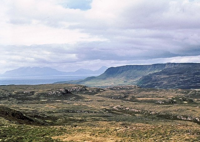 Central Eigg. Much of Eigg features a volcanic trap landscape with two plateau areas around 300m above sea level, split by a central fault guided valley. This view northwards includes the cliffs above Cleadale and the Skye Cuiilin in the distance.